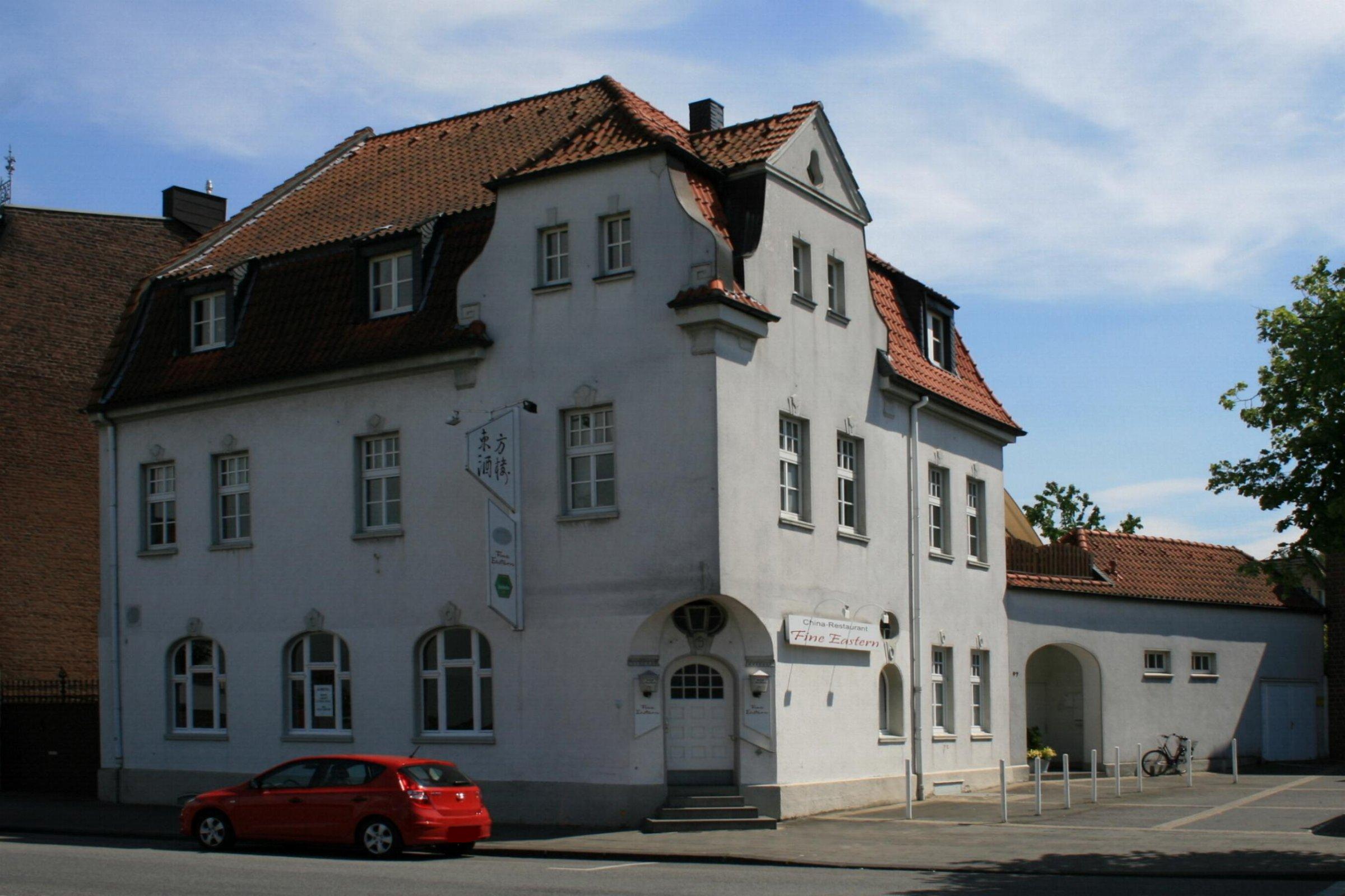 Cultural heritage monument No. H 056 in Mönchengladbach